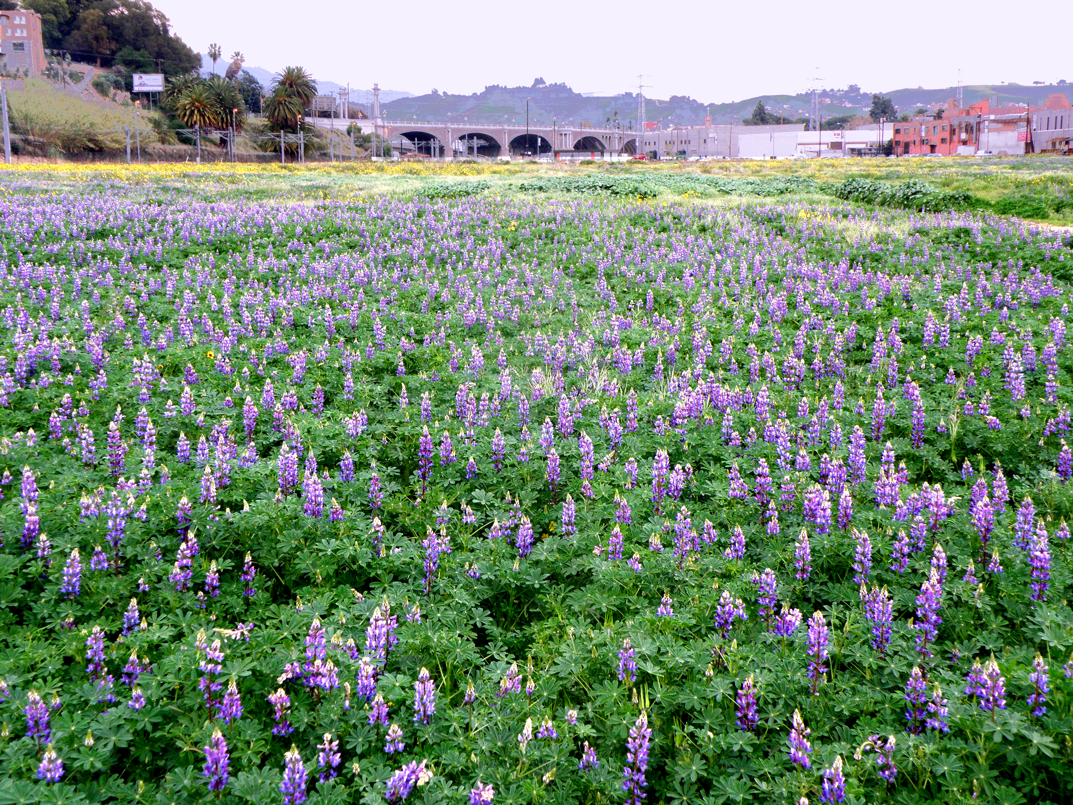 Lupine in Los Angeles State Historic Park, California, USA